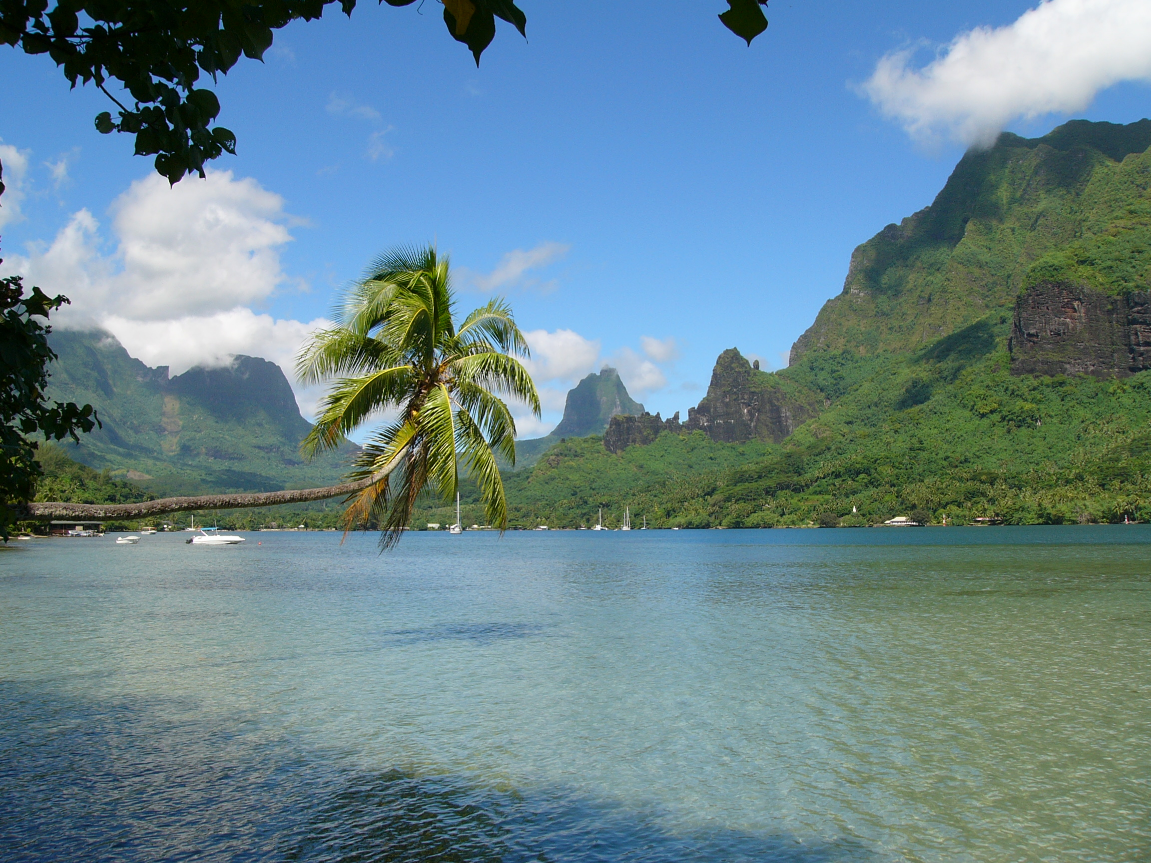 Cook Bay, Moorea, Society Islands, French Polynesia